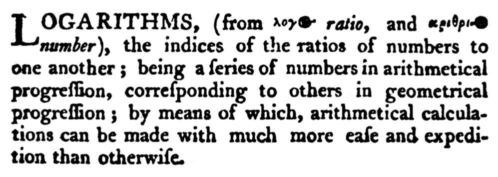 Lead paragraph of Logarithms article in 1797 Britannica